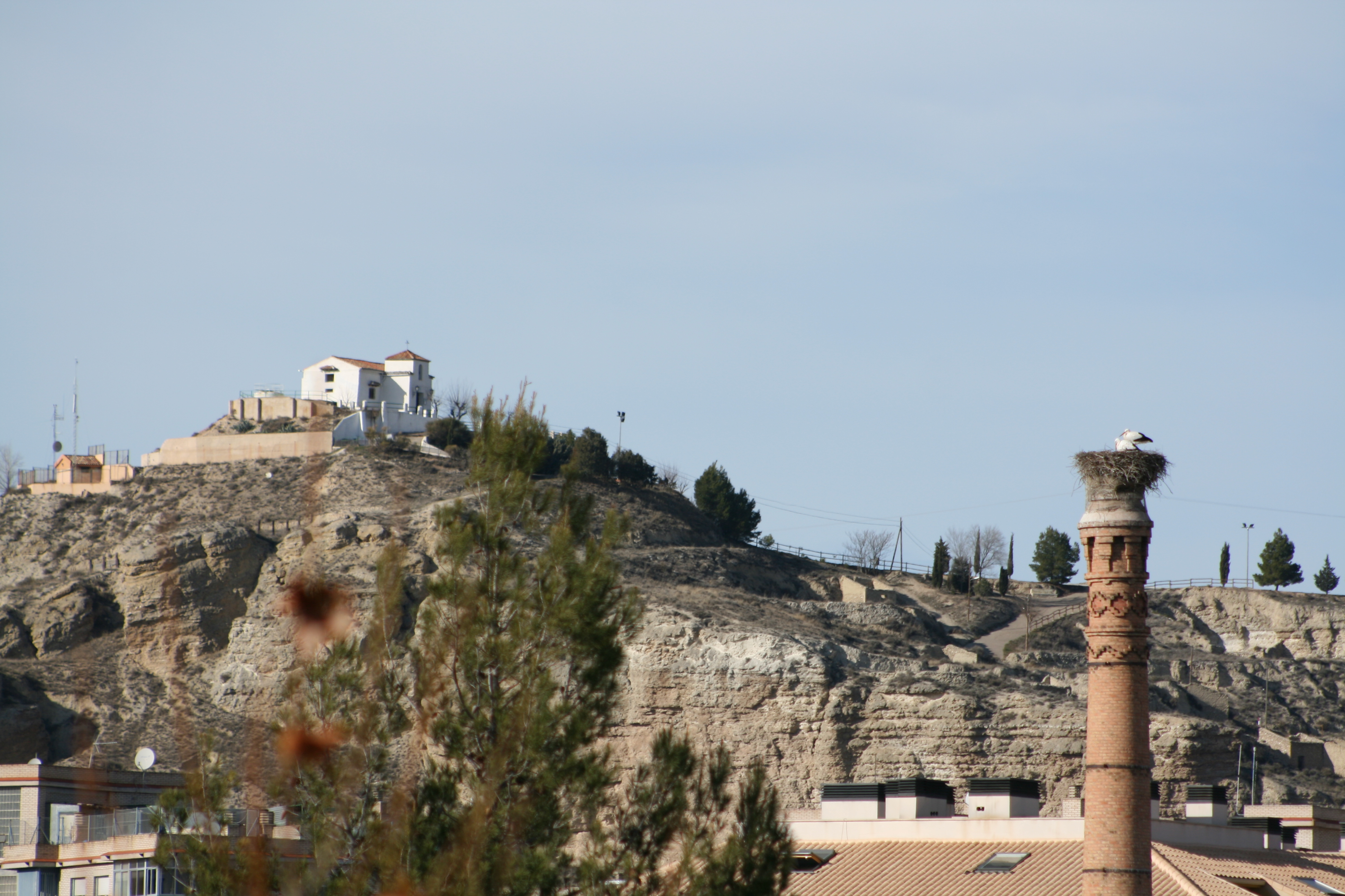 Storks (ciconia ciconia) on the chimney of the old sugar factory, Calatayud, Spain